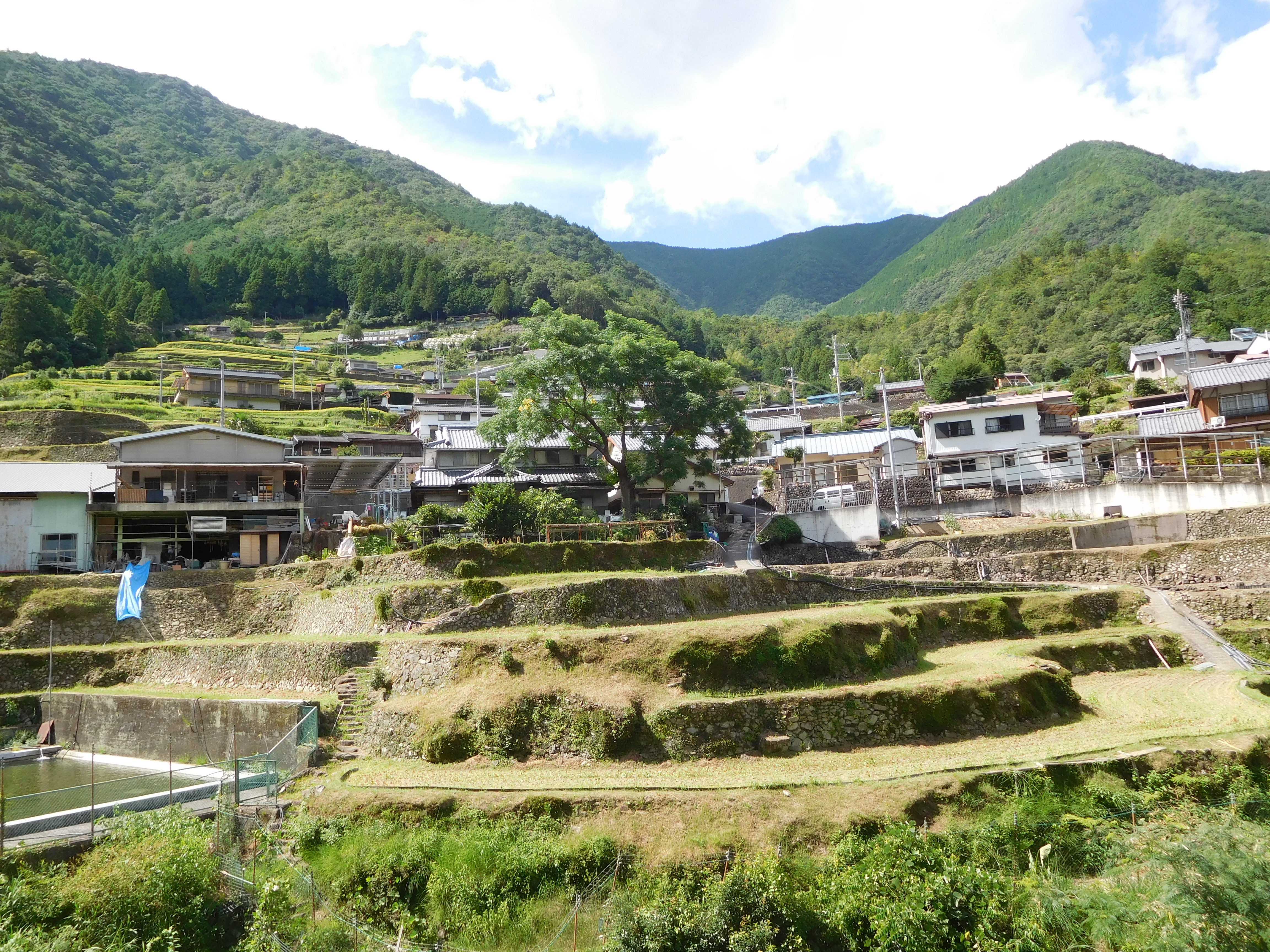 This is a landscape of Nanairo, Totsukawa village, Nara prefecture, Japan.